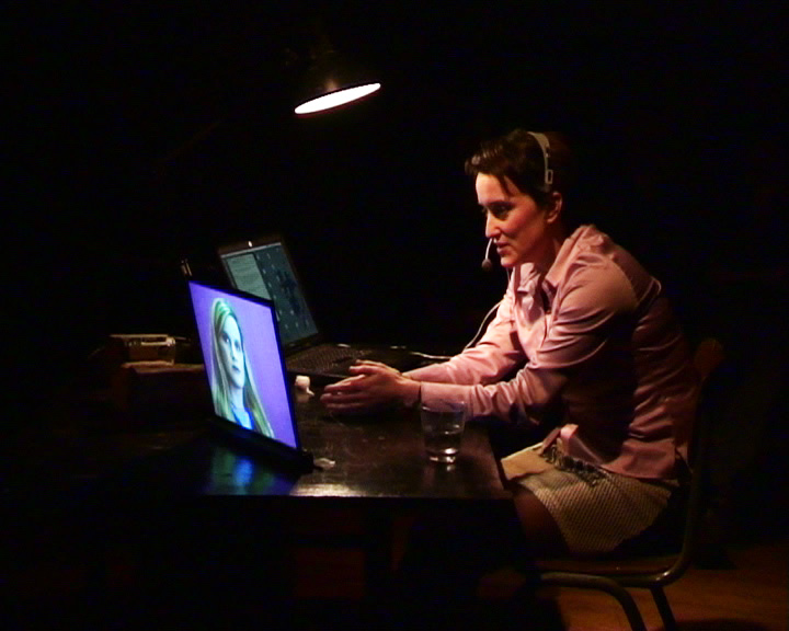 Solo-Performance Calling Victoria by Steffi Weismann